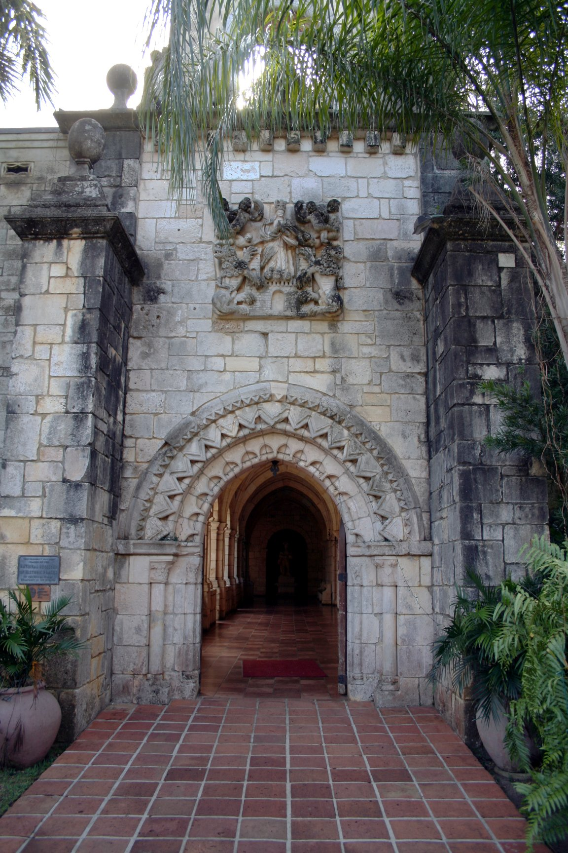 Photograph of the St. Bernard de Clairvaux Church in northern Miami-Dade County, Florida, USA taken by Rolf Müller on January 23 2006 using a Canon Inc. EOS 350D digital camera with an EFS 18-55mm lens.